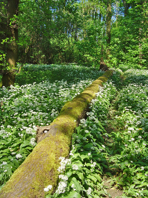 Brumby Woods, Scunthorpe. Wild garlic and fallen tree in the woods near Kingsway. Brumby Woods are one of the few remaining ancient woodlands in North Lincolnshire. The wood is managed as a local nature reserve.